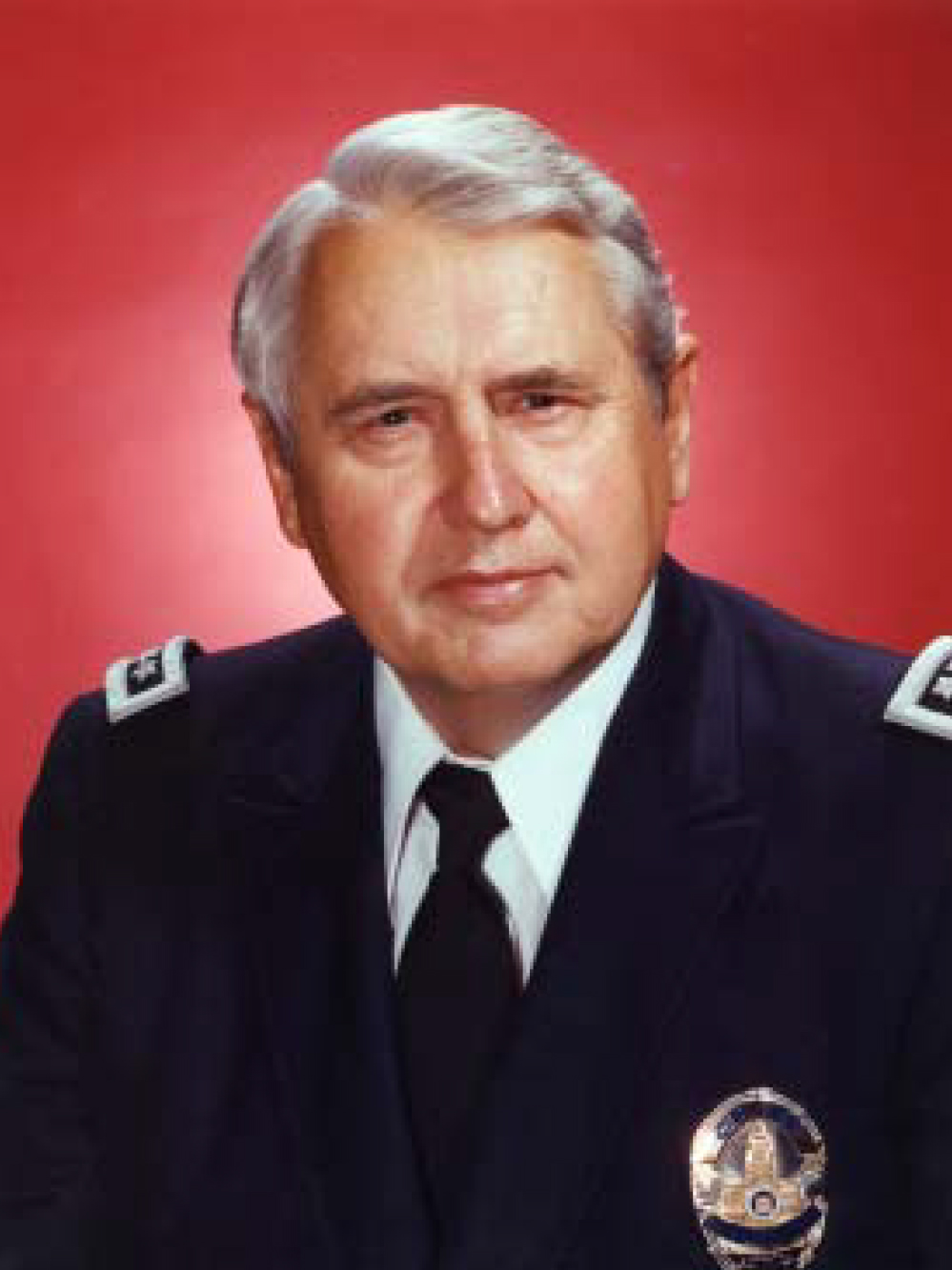 Depicted person: Edward M. Davis – American police chief and politician